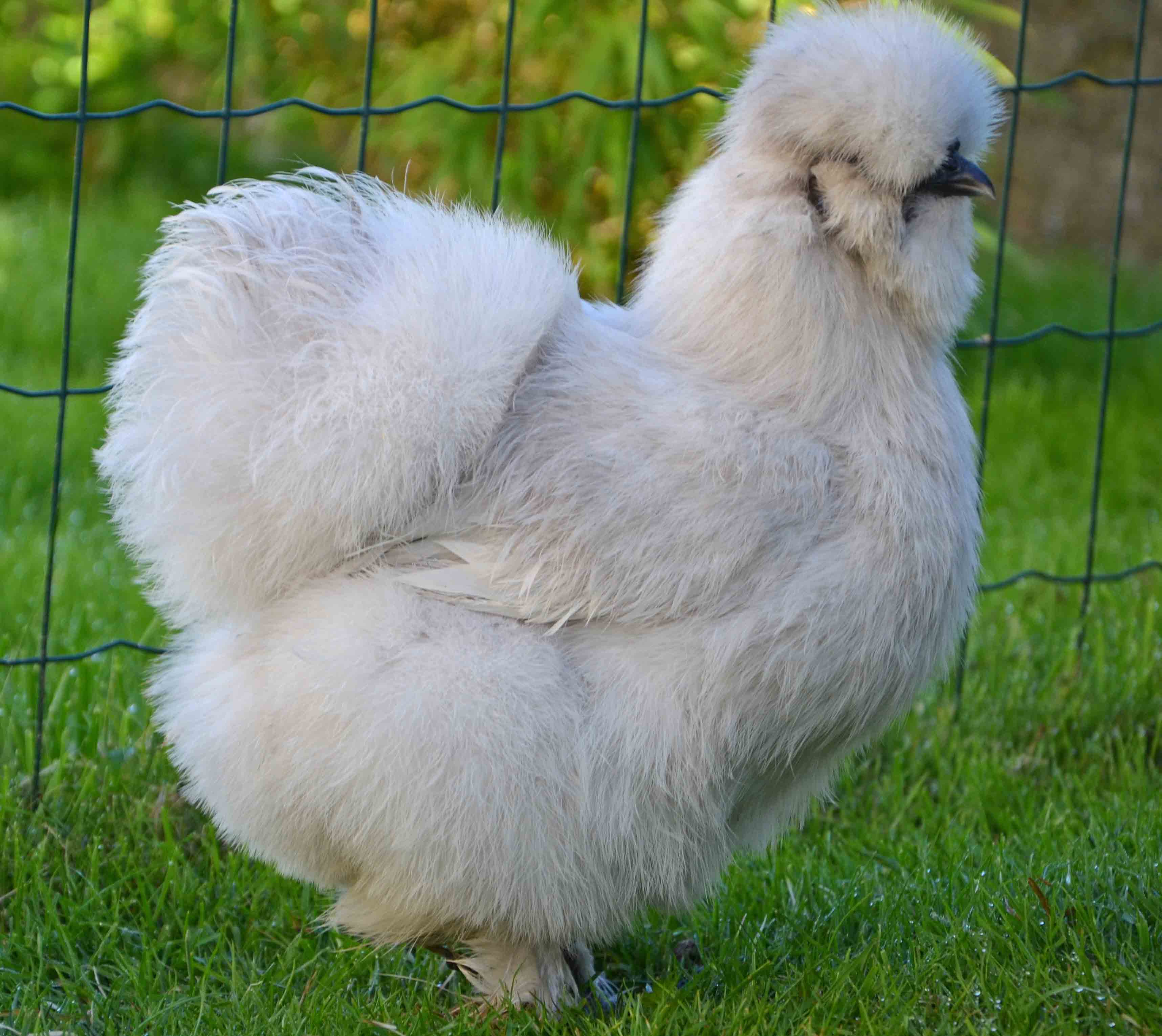 A lavender Silkie hen.